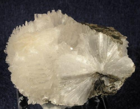 Thomsonite-Ca Locality: Amudikha River, Nizhnyaya Tunguska River Basin (Lower Tunguska River), Evenkia (Evenkiyskiy Autonomous okrug), Krasnoyarsk Territory (Krasnoyarsk Kray; Krasnoyarskii Krai), Eastern-Siberian Region, Russia (Locality at ) Size: 4.2 x 3 x 3 cm. Very rare, exceptional specimen of well-crystallized Thomsonite. The crystals are translucent to gemmy, have very good luster, and occur in dozens of platy fans (sprays) about .5 cm long. In discrete crystals like this, Thompsonite is very rare. This is old material from the Fersman Museum of Moscow.